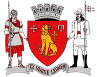 CoA of Căușeni.gif